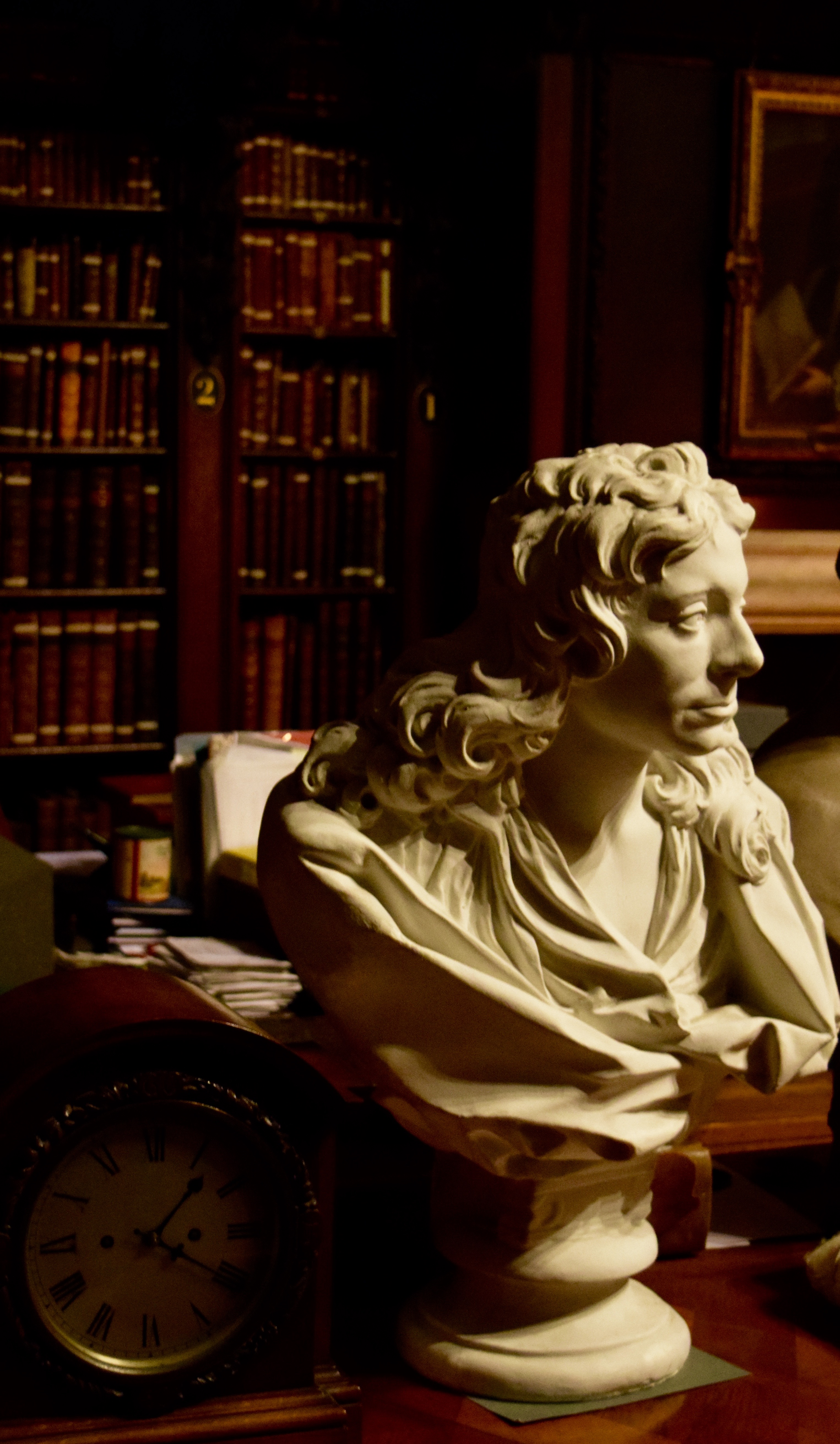 Library of St. Paul's Cathedral, London with a bust of a youthful looking Sir Christopher Wren.